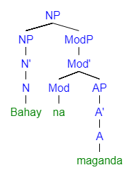 Simplified syntax tree adapted from Scontras (2012) example 9a, made with